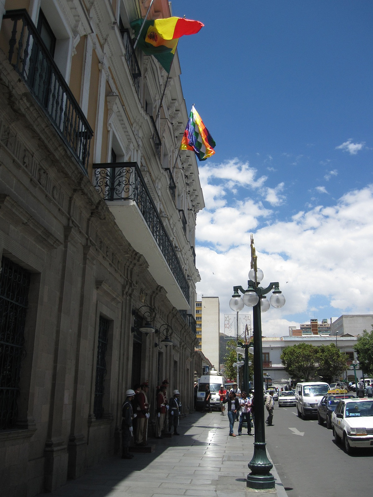 "the Burned Palace", presidential castle, with guards and Bolivian flag and the Wiphala.